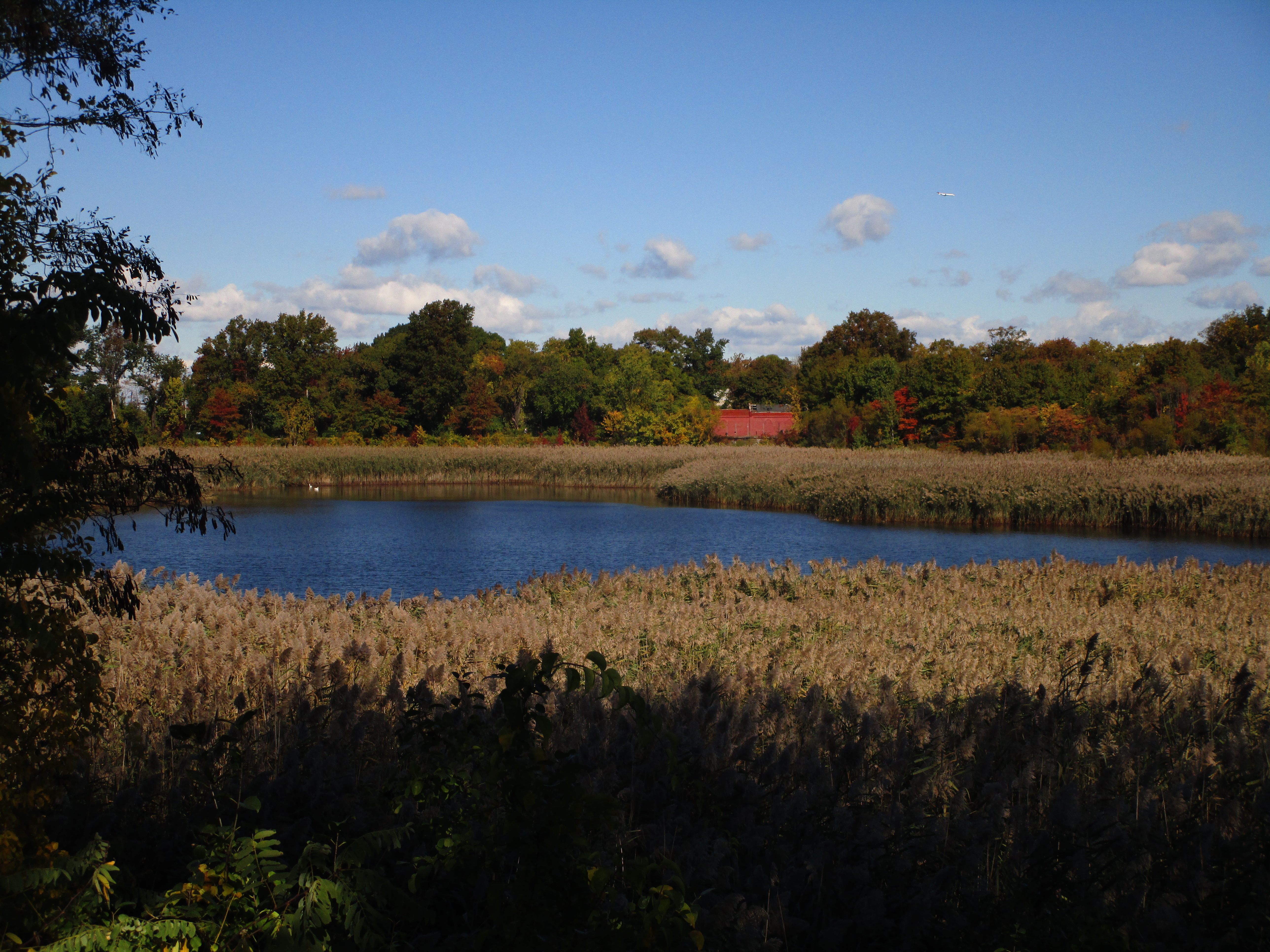 Basin 2, Ridgewood Reservoir - exterior - Ridgewood Reservoir- OHNY 2015 - October 18, 2015 Site: Ridgewood Reservoir